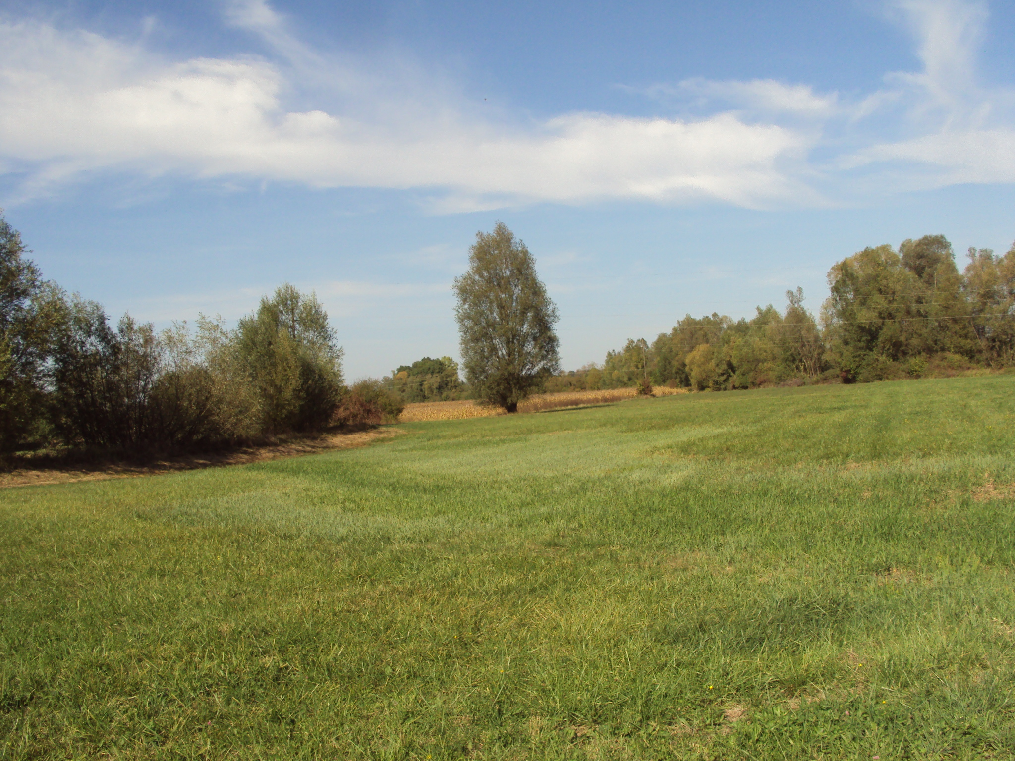 Meadow in Bulinac, Bjelovar, Croatia